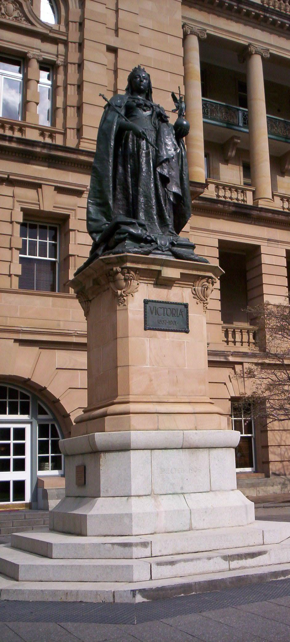 Statue of Queen Victoria of the United Kingdom